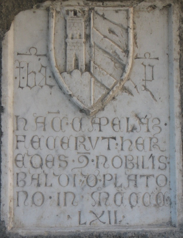 Coat of arms of Platoni in Caffaraccia